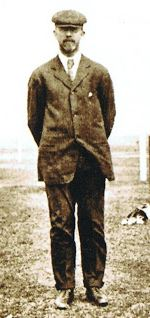 A circa 1896 photograph of American amateur golfer and golf course architect Herbert C. Leeds (1855-1930). His best course was Myopia Hunt Club.